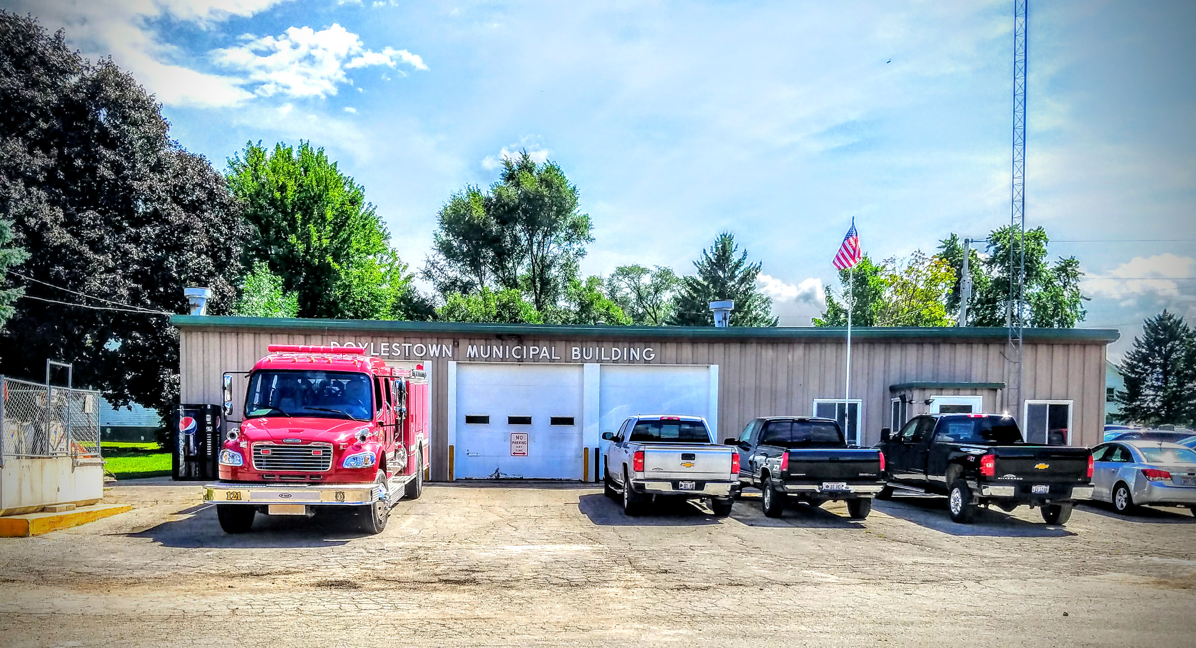 The Doylestown Municiapl Building